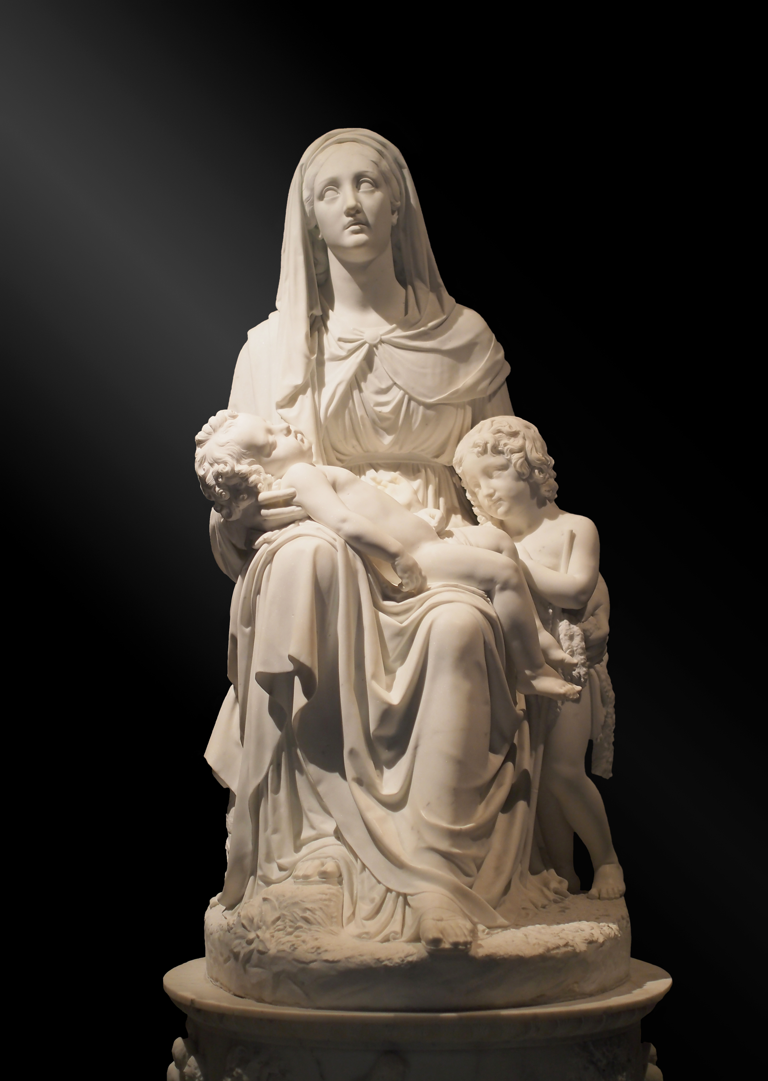 Sculpture of Madonna with child and Saint John by Benedetto Cacciatori. Kunsthistorisches Museum Vienna, Austria. In. No. KK5489, marble. This photograph was taken with an Olympus E-P5